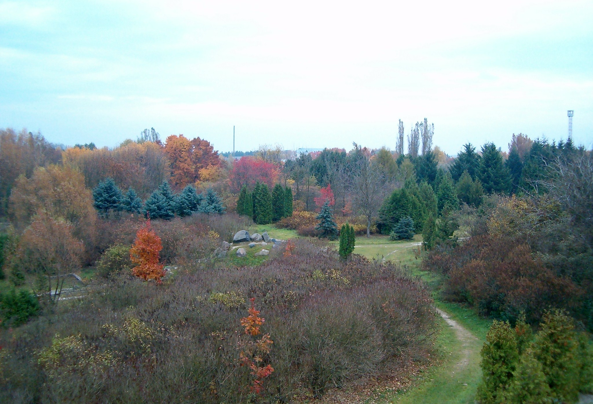 The Berezne Forestry College. Panoramic view of the Dendrological Park.